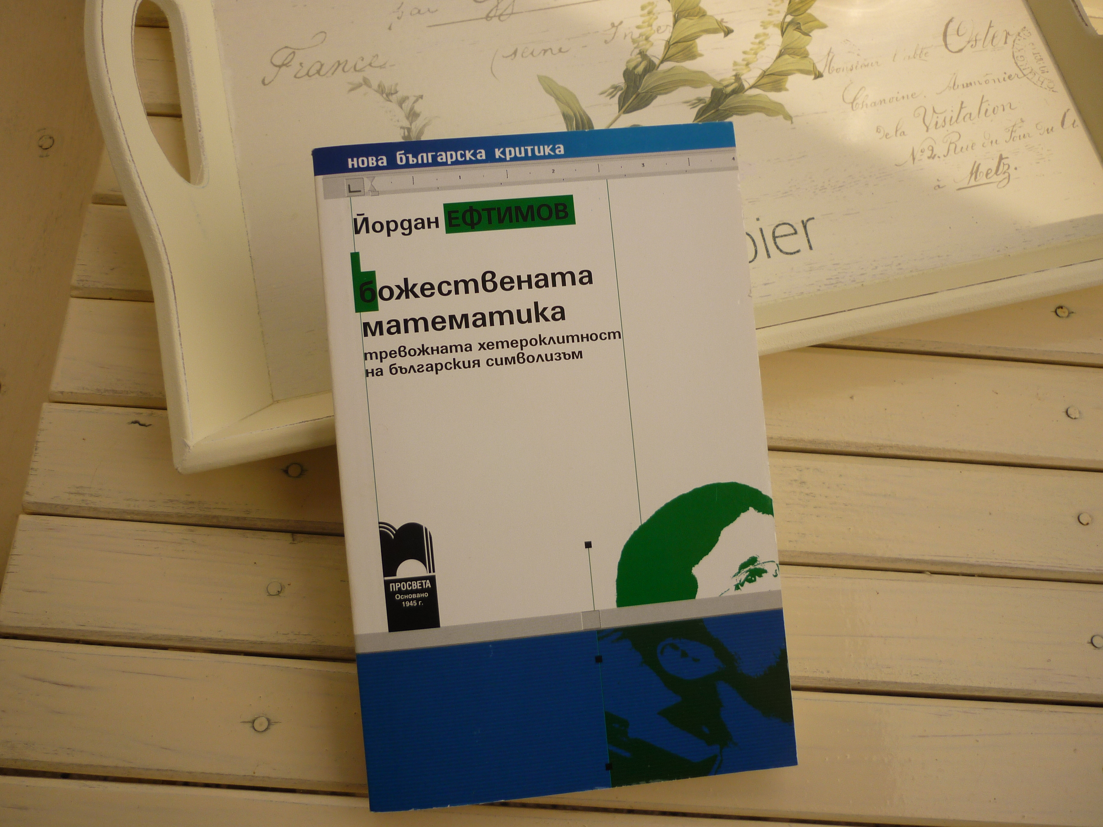 „Divine mathematics: Disturbing Heteroclicity of Bulgarian Literary Symbolism“, cover of the first Bulgarian edition, 2012